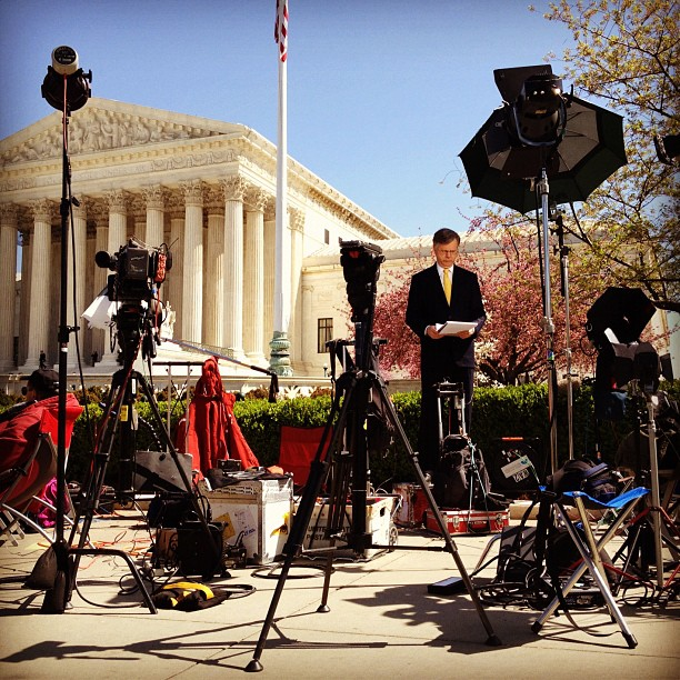 NBC News justice reporter Pete Williams prepares for a report in front of the US Supreme Court.